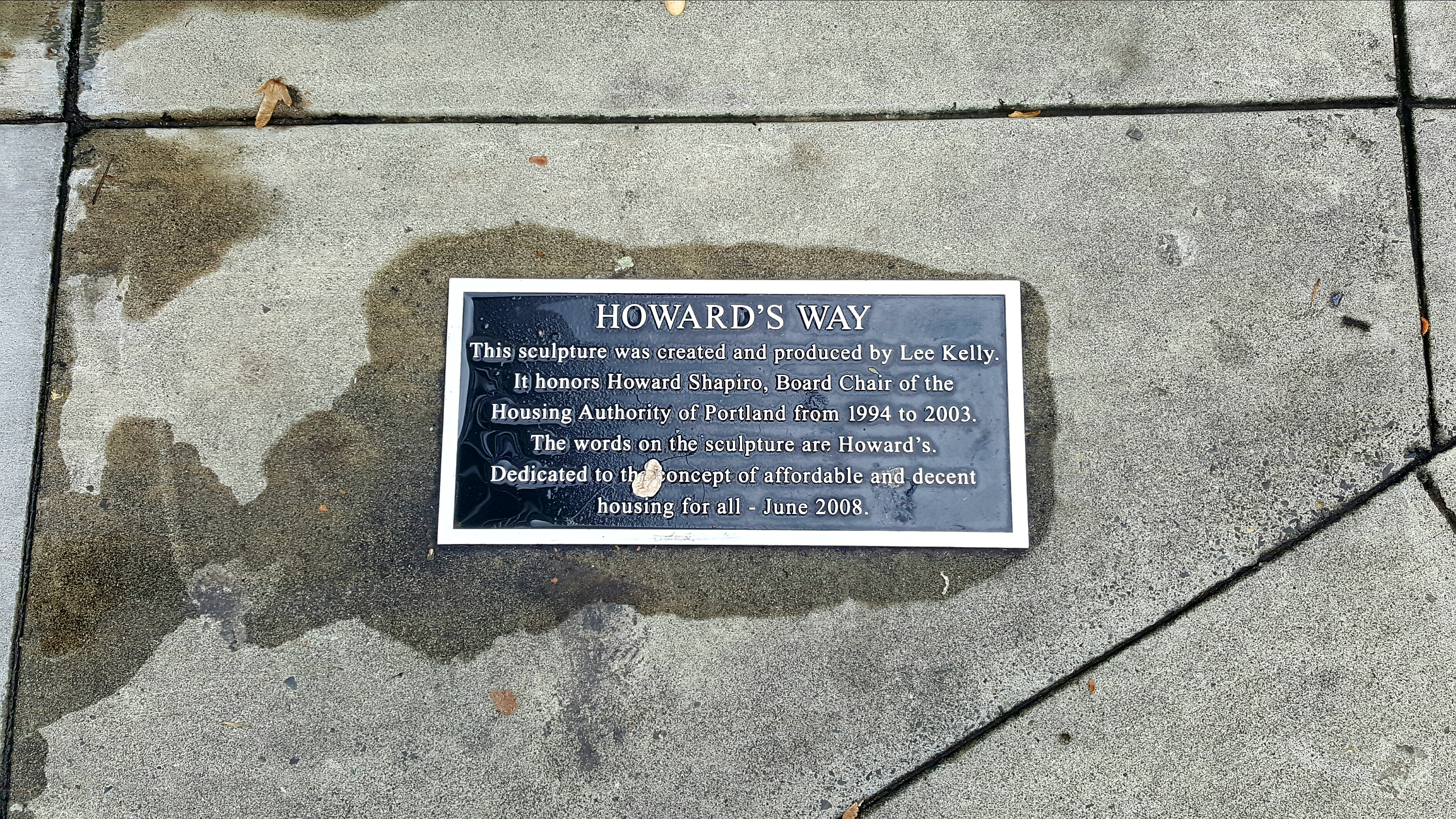 Howard's Way